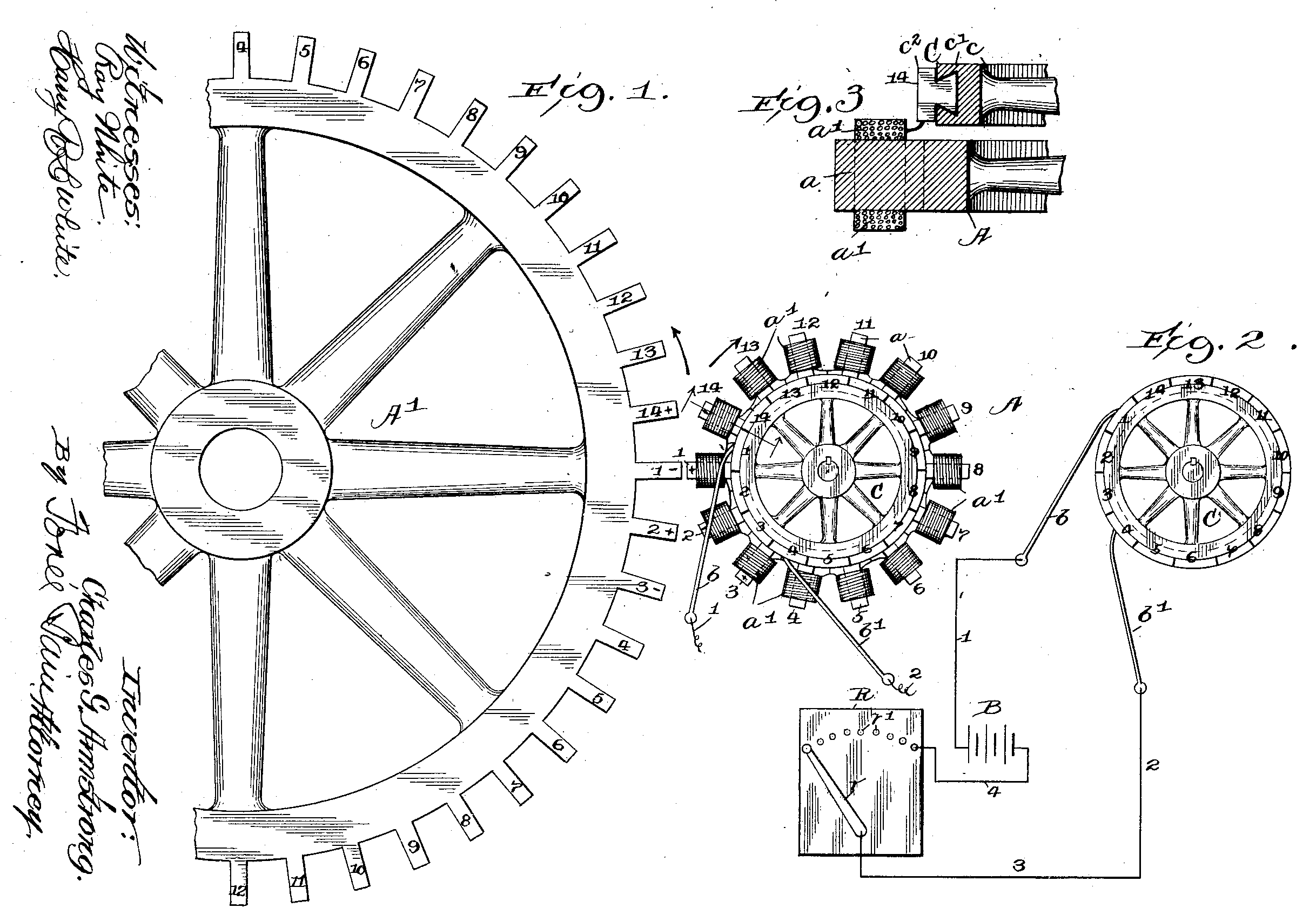 Power-transmitting device